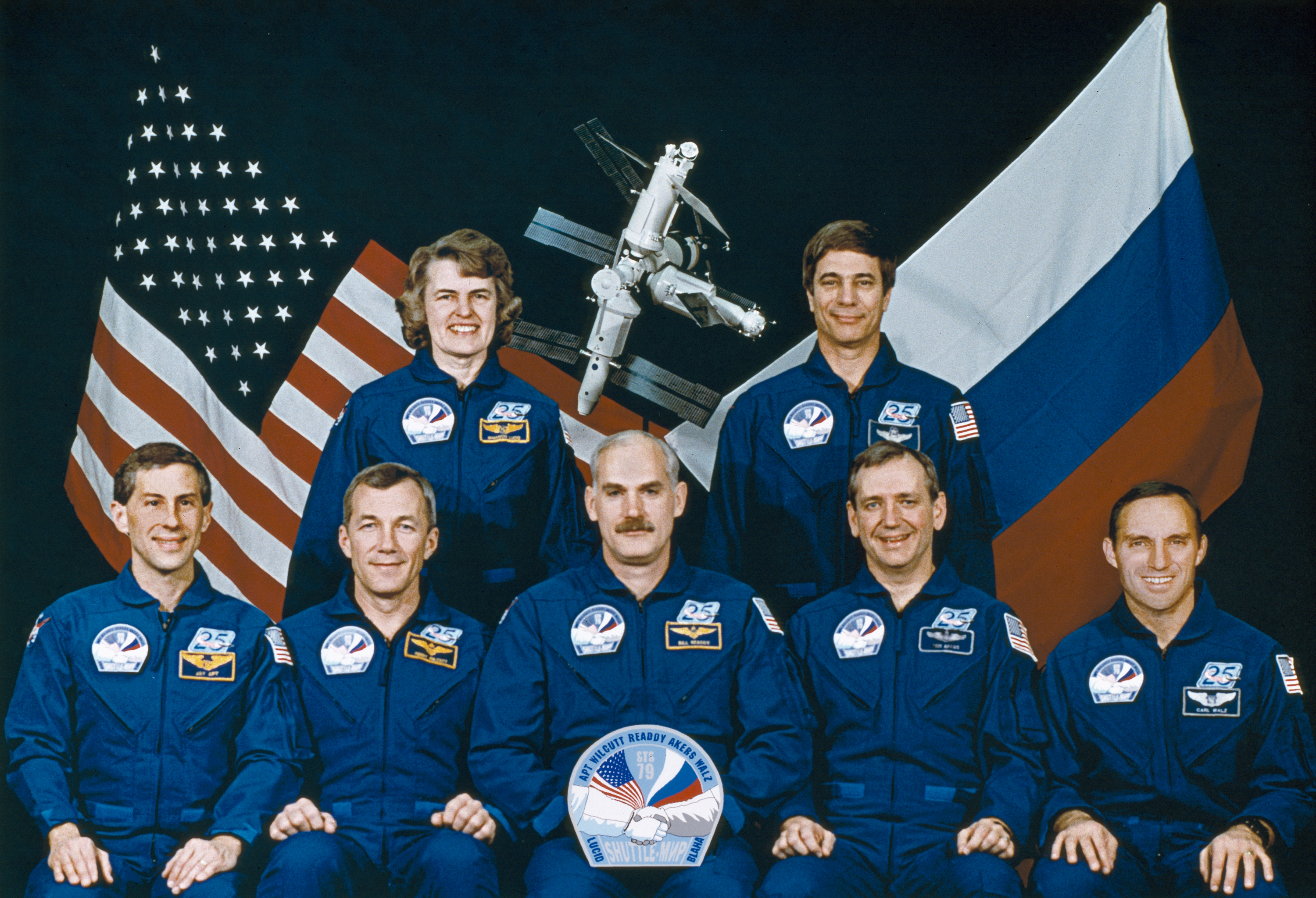 The crew assigned to the STS-79 mission included (seated front left to right) Jerome (Jay) Apt, mission specialist; Terrence W. Wilcutt, pilot; William F. Readdy, commander; Thomas D. Akers, and Carl E. Walz, both mission specialists. On the back row (left to right) are mission specialists Shannon W. Lucid, and John E. Blaha. Launched aboard the Space Shuttle Atlantis on September 16, 1996 at 4:54:49 am (EDT), the STS-79 mission marked the fourth U.S. Space Shuttle-Russian Space Station Mir docking, the second flight of the SPACEHAB module in support of Shuttle-Mir activities and the first flight of the SPACEHAB Double Module Configuration.